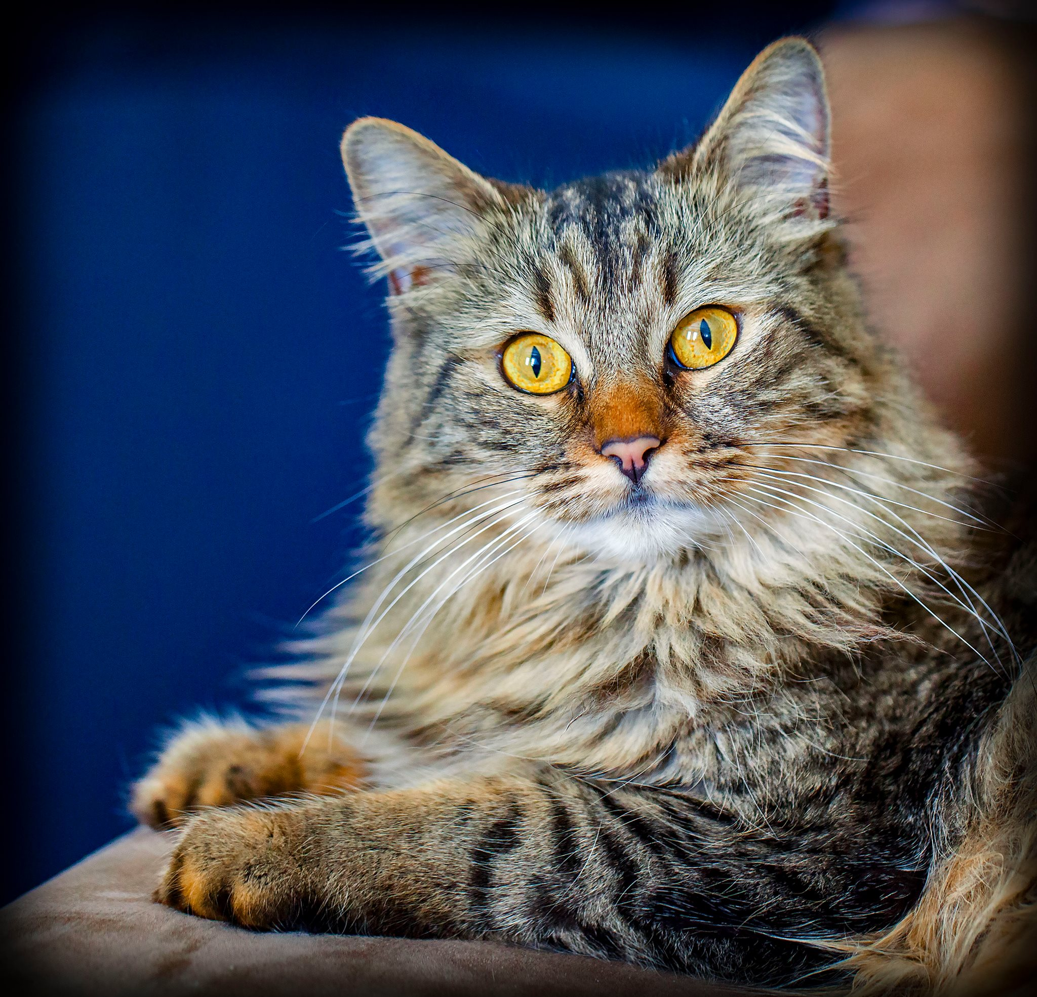 A two year old Maine Coon (American Longhair) cat adopted from the Sedona, Arizona Humane Society.